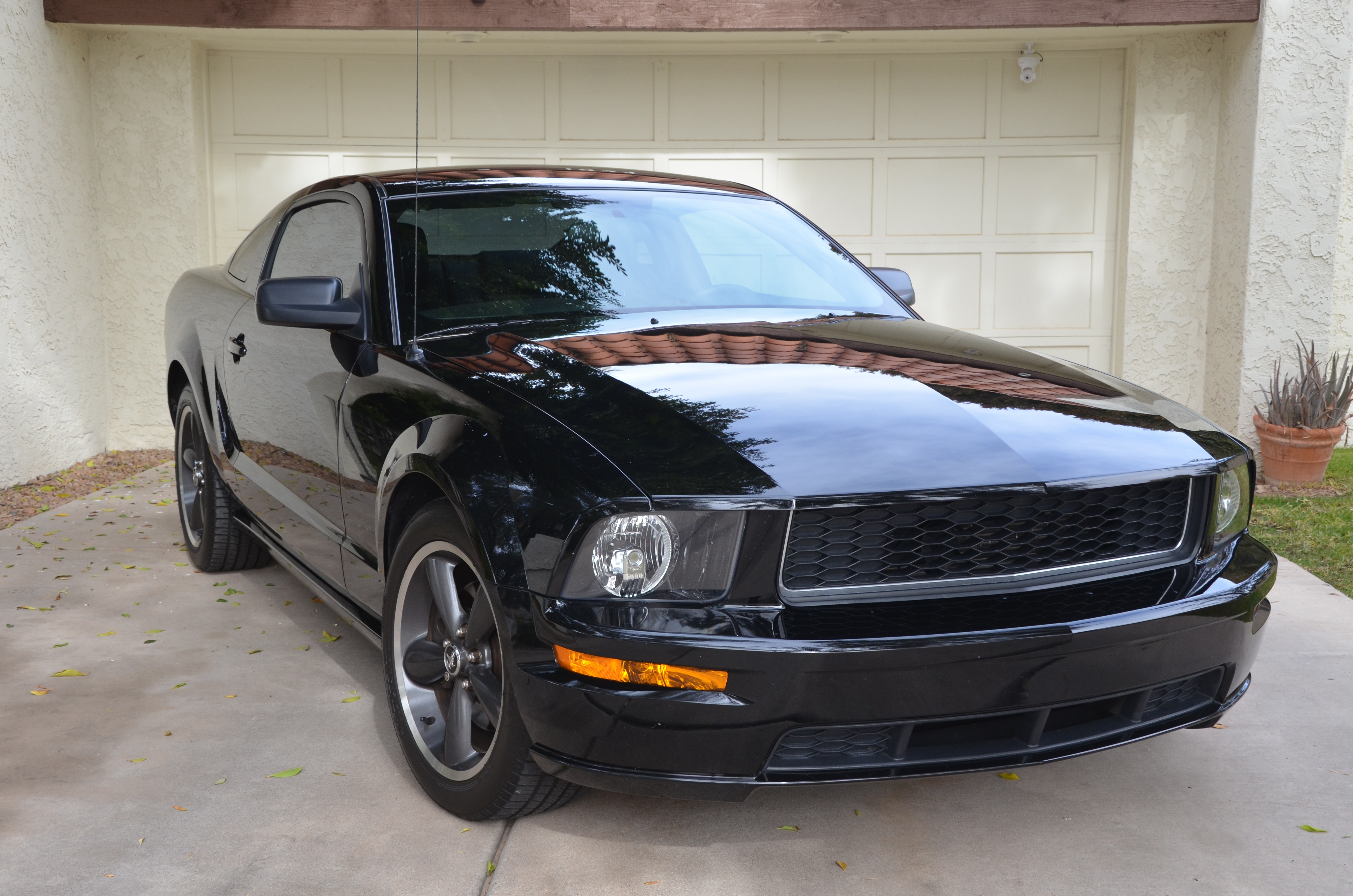 This is a picture of a 2008 black Ford Mustang Bullitt edition. (The filename incorrectly says the car is a 2005 when it's a 2008)